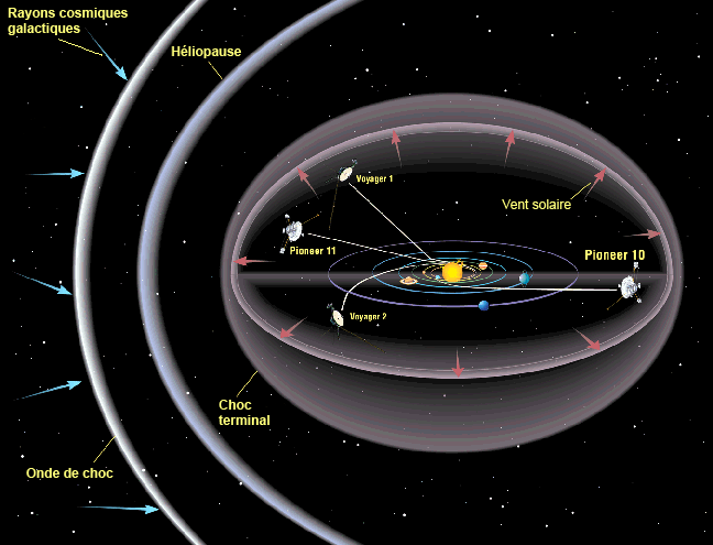 Heliosphere & Pioneer missions